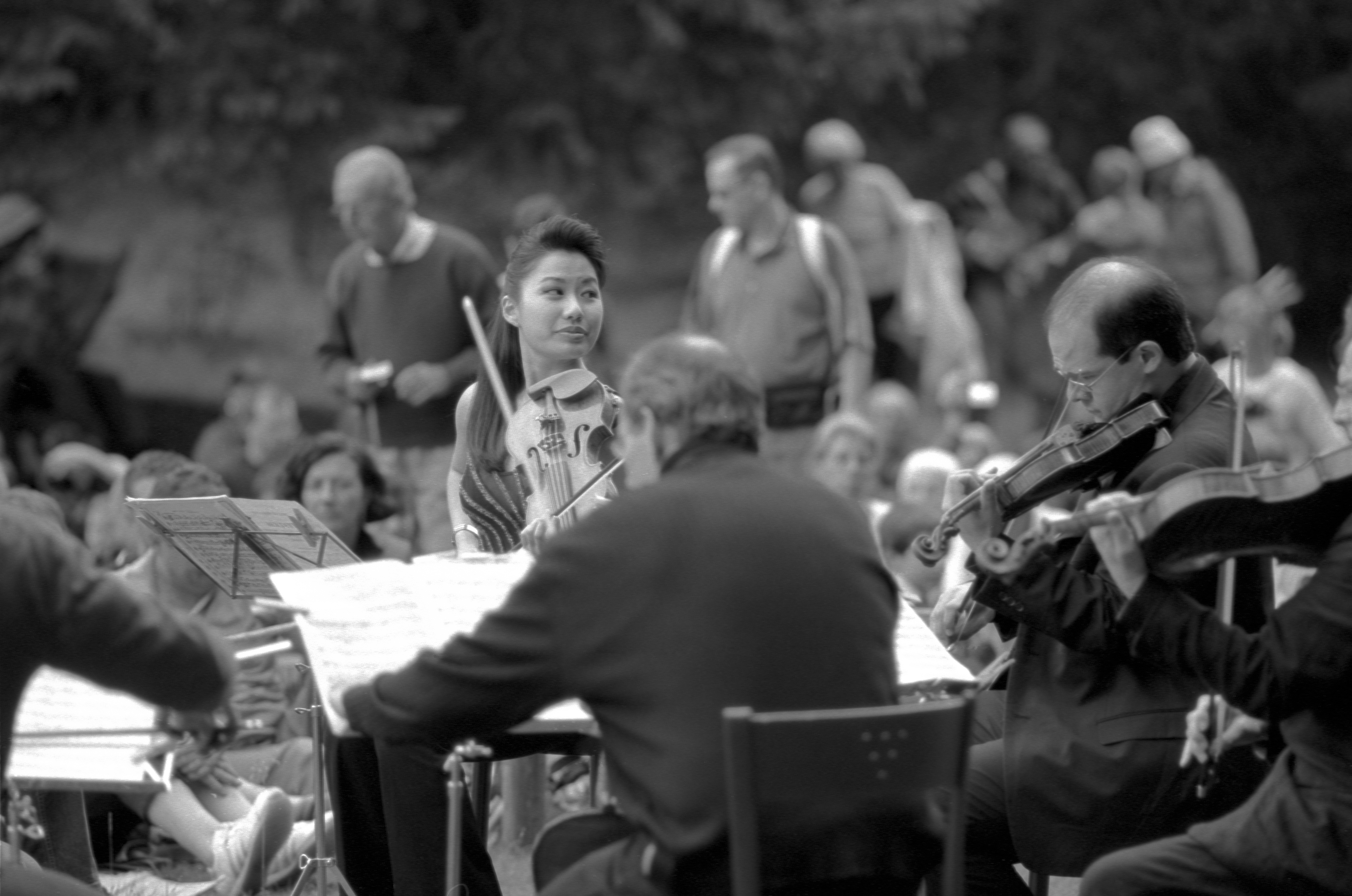 Sarah Chang performing outdoor at the I suoni delle Dolomiti festival in 2005